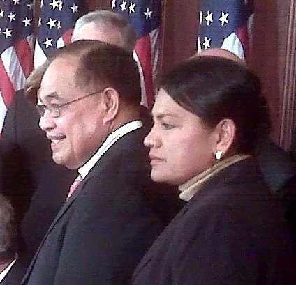 Northern Mariana Islands Governor Benigno Fital (left) and First Lady Josie Fitial (right)